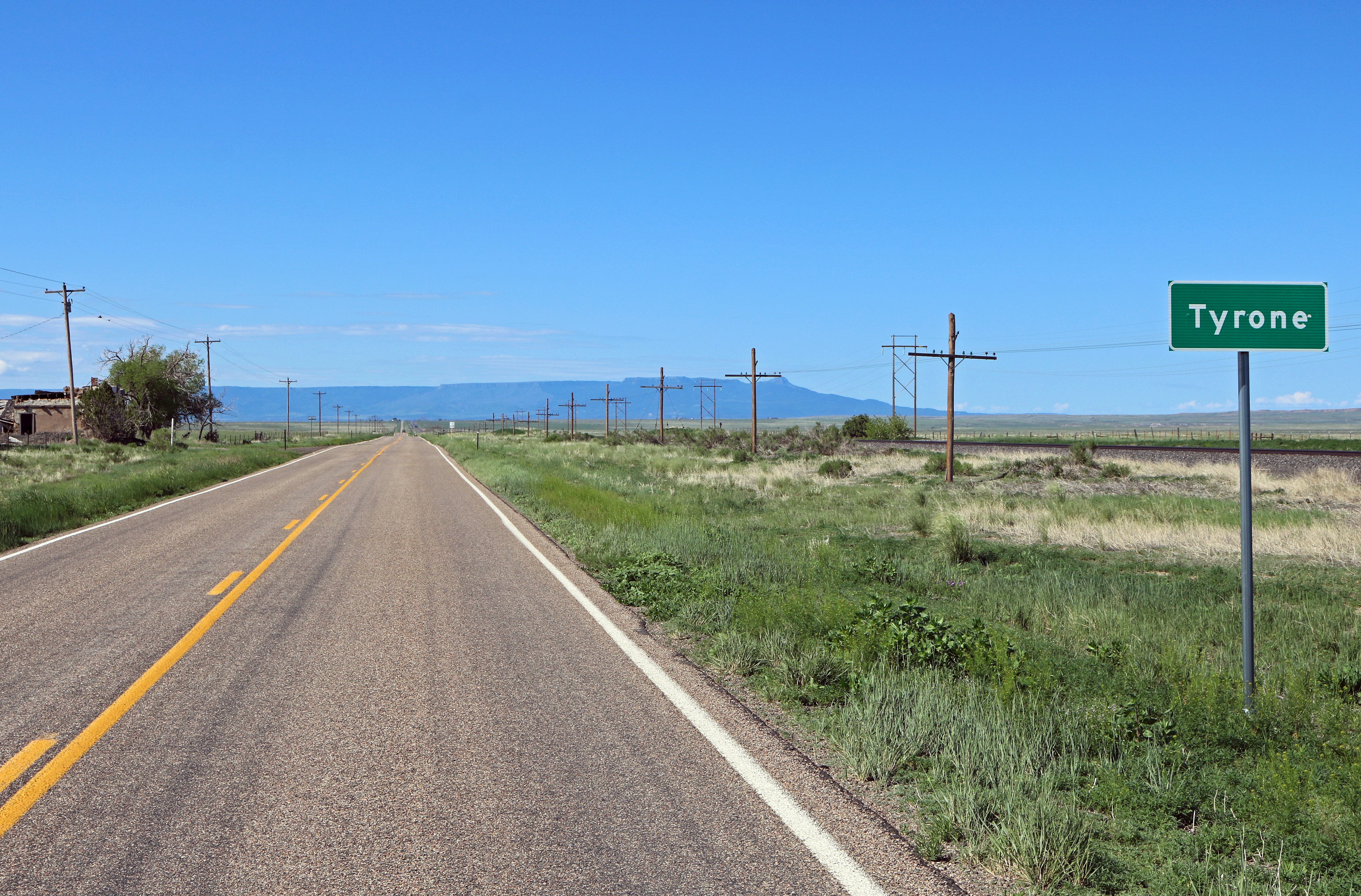 Tyrone, Colorado, an unincorporated community in Las Animas County, Colorado. The view is to the southwest along U.S. Route 350, with Raton Mesa visible in the distance.